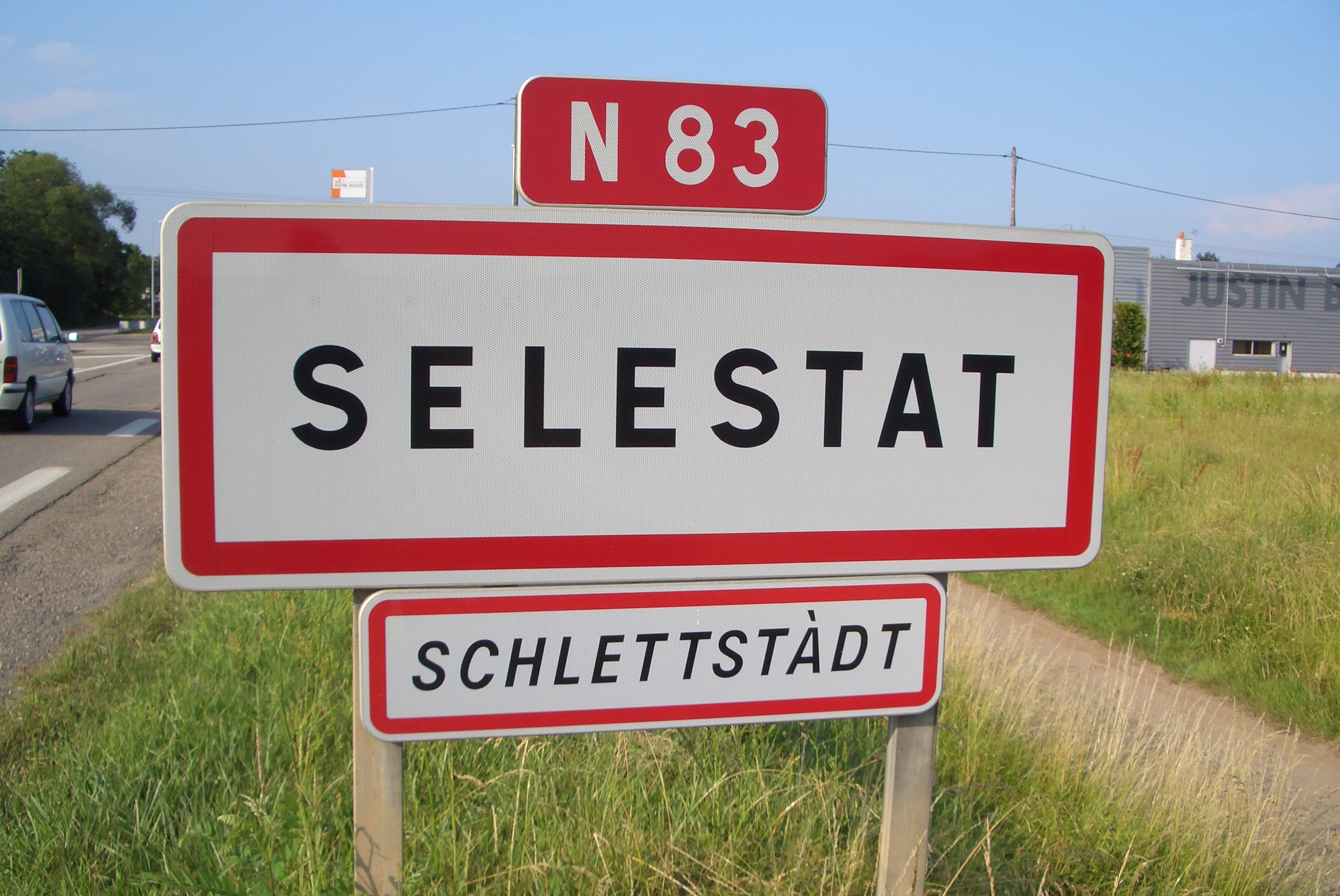 Bilingual place-name sign at Sélestat in Alsace, France